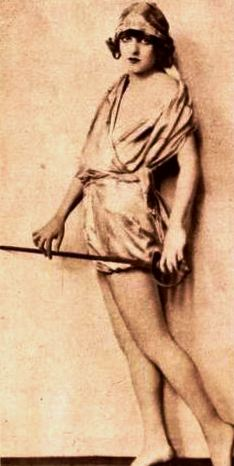 Martha Lorber of the Ziegfeld Follies, on page 4 of the August 12, 1922 Film Weekly.